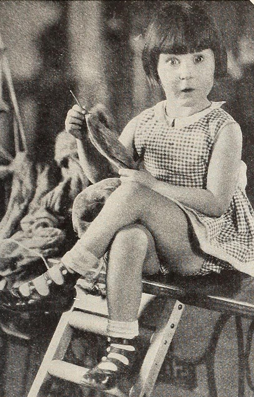 Picture-Play, November 1928.